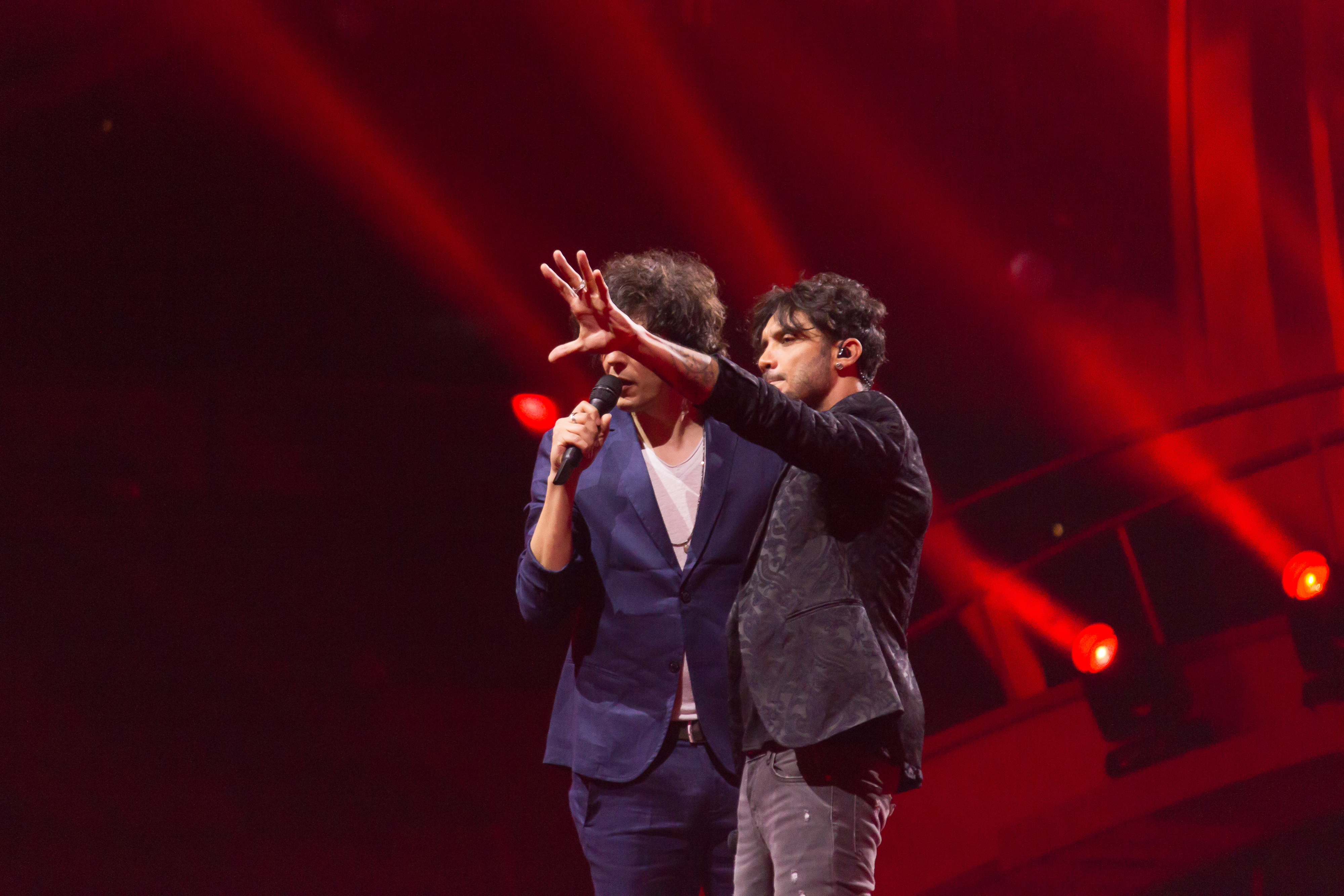 Ermal Meta and Fabrizio Moro representing Italy with the song "Non mi avete fatto niente" during a rehearsal before the second semi final of the Eurovision Song Contest 2018 in Lisbon.